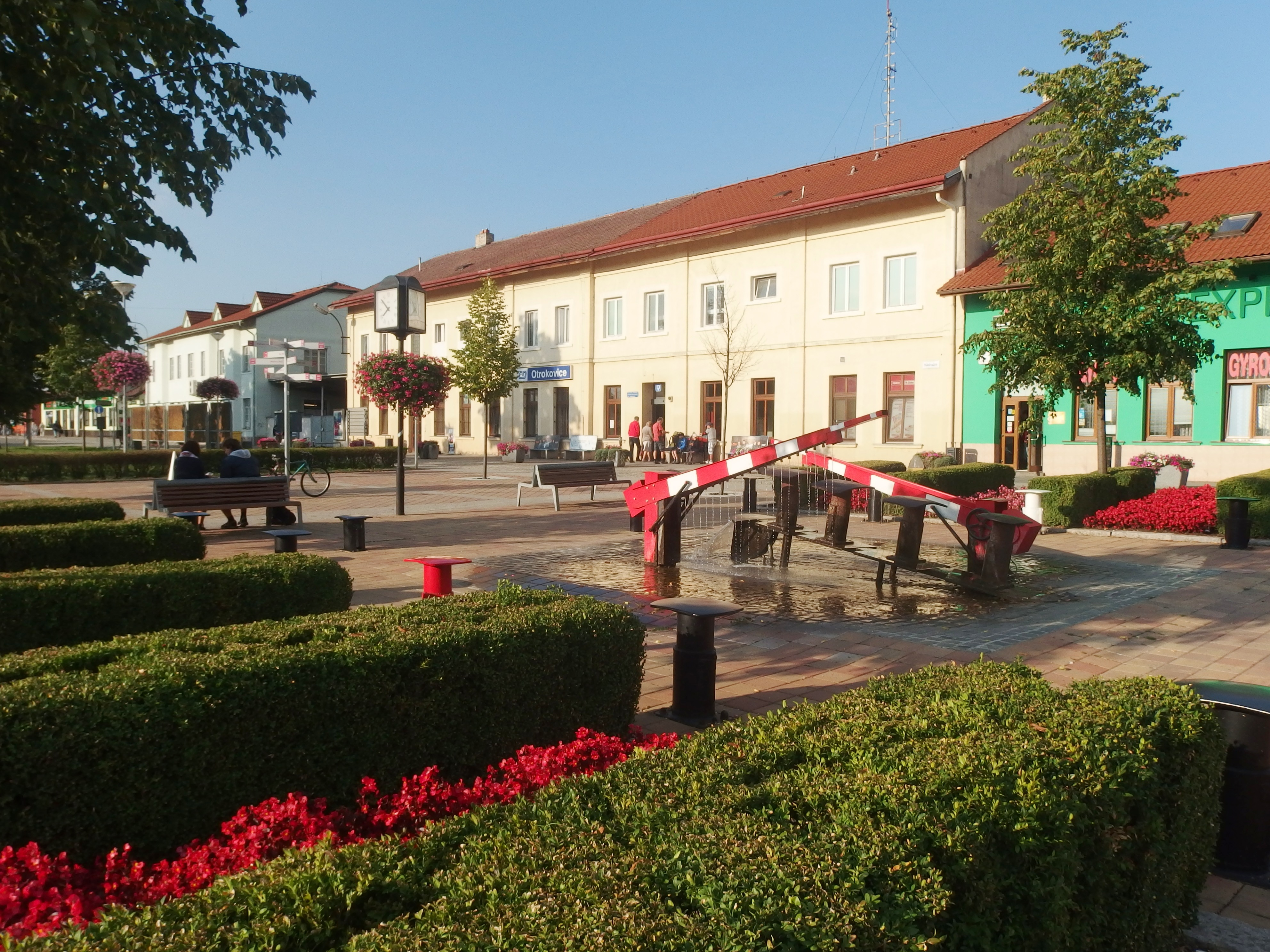 Otrokovice in Zlín District, Czech Republic. Railway station.